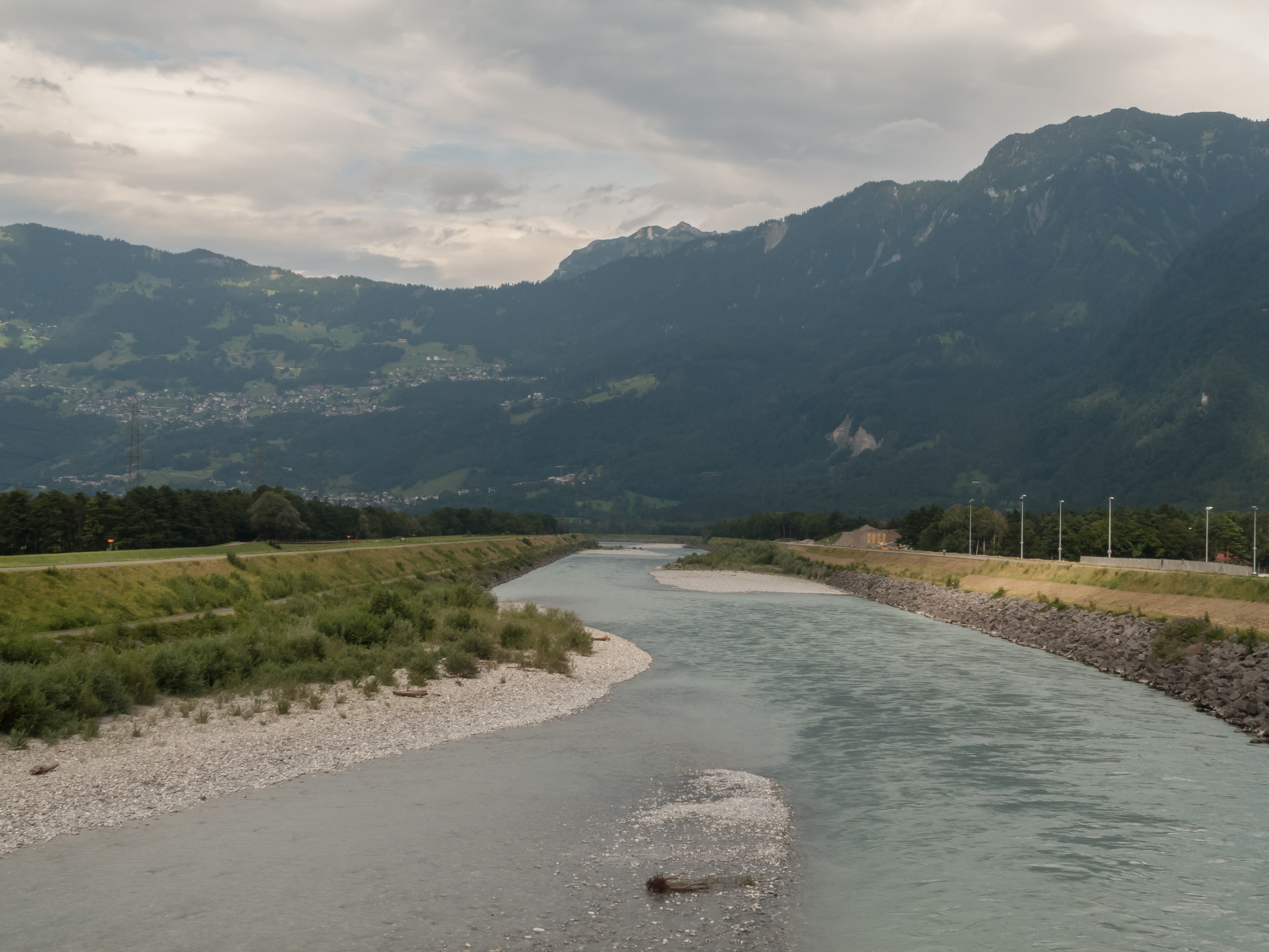 between Balzers and Trübbach, river: Rhine